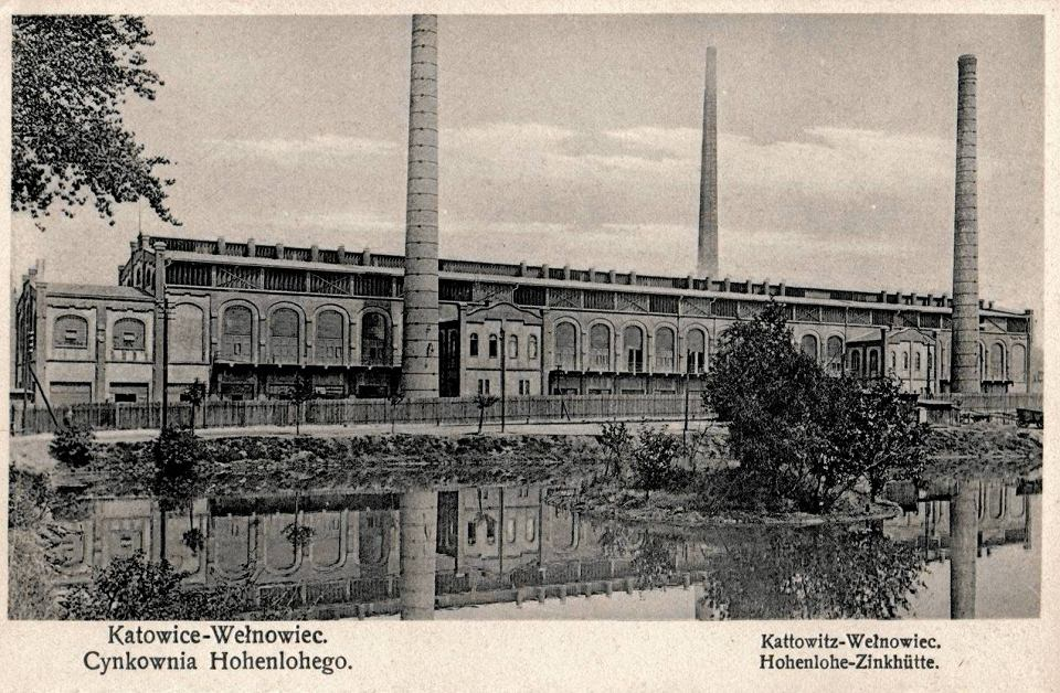 The non-existent Hohenlohe zink-works in Wełnowiec, part of Katowice in Poland, the hall of distillation ovens demolished 5th of August, 2005.